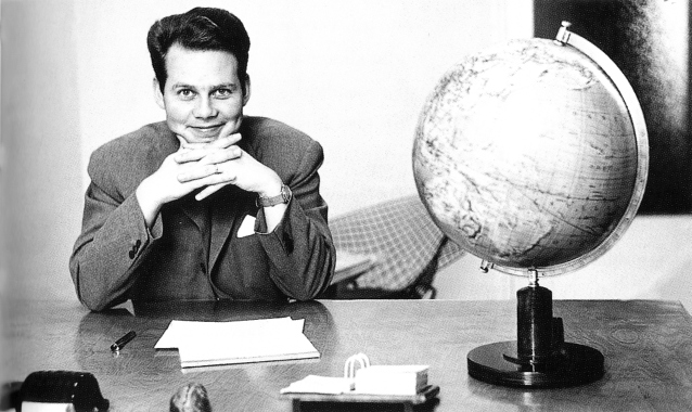 Photograph of the Finnish writer Hannu Tarmio (1932–2015).